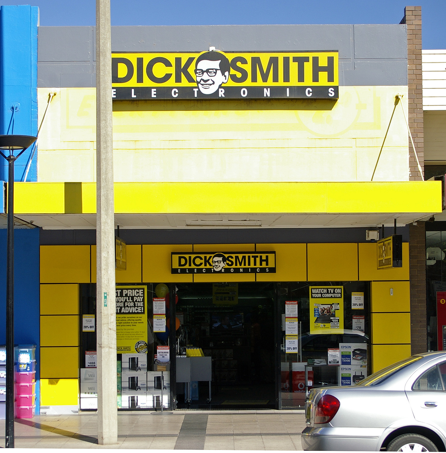 Dick Smith Electronics. Wagga Wagga, New South Wales.